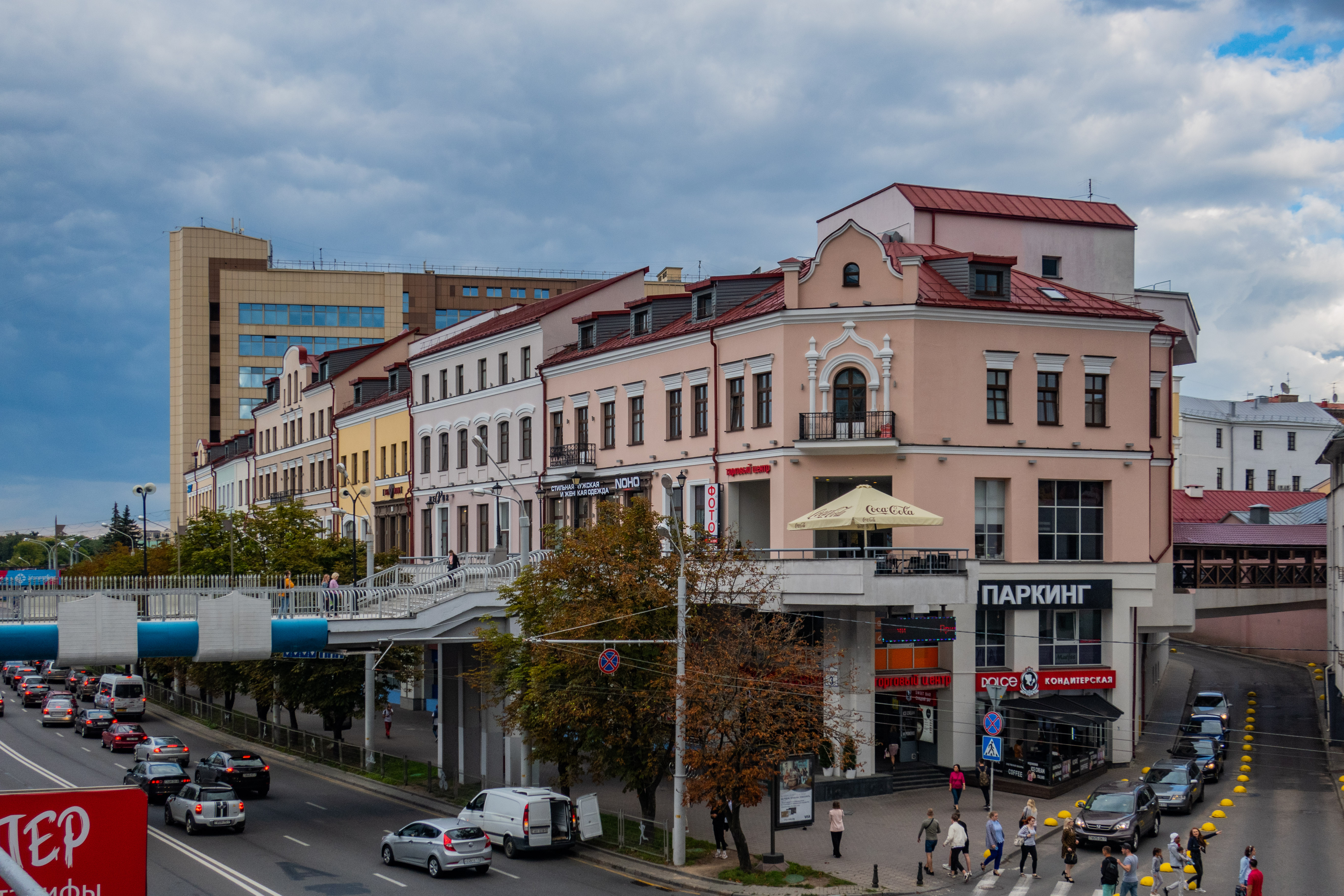 Pseudo-historical remake of Niamhia street. Minsk, Belarus